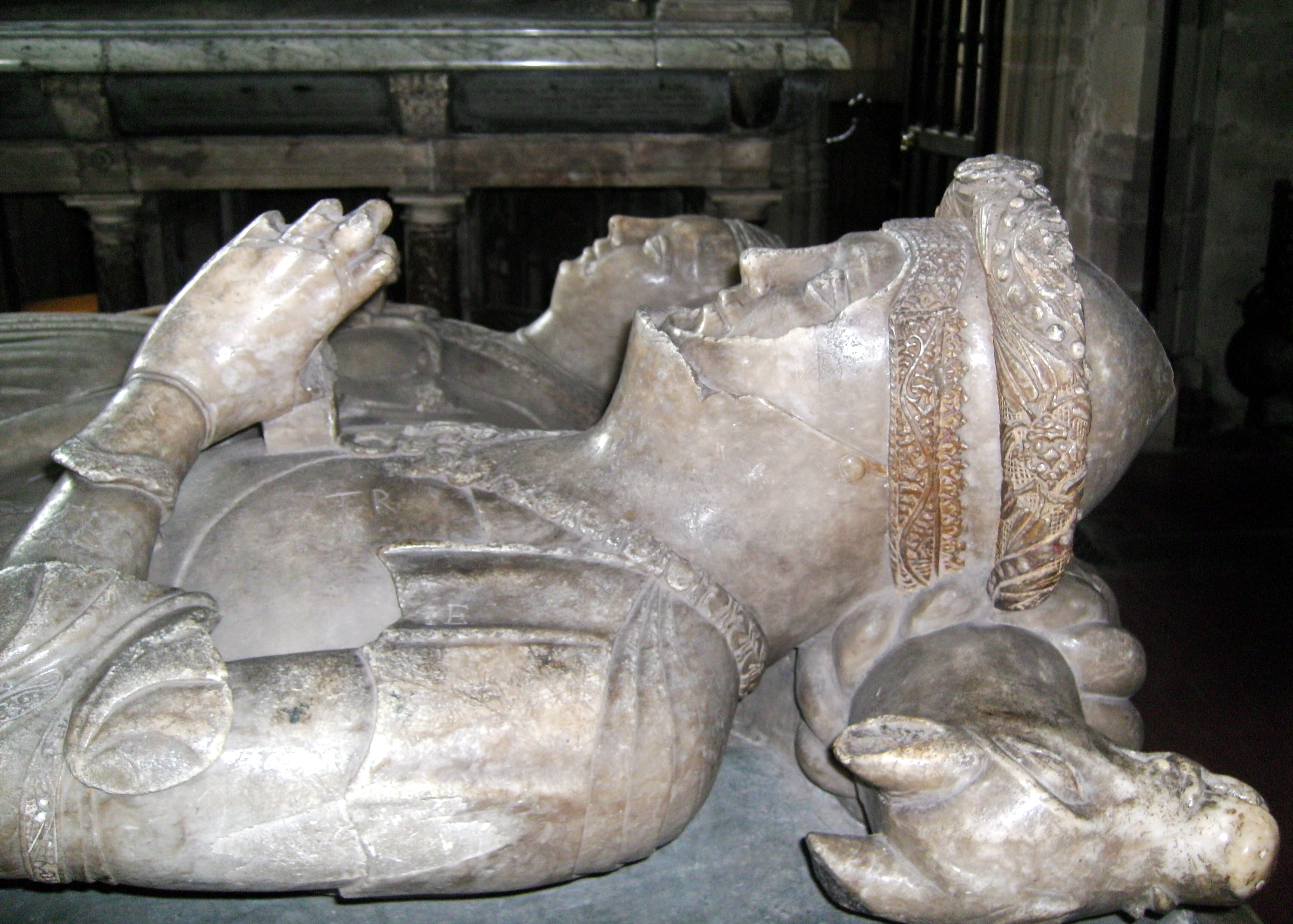 Richard Vernon (died 1451, foregound) and Benedicta de Ludlow. Through their mariage the Vernons of Haddon Hall obtained Tong. Tomb in St Bartholomew's Church, Tong, Shropshire.